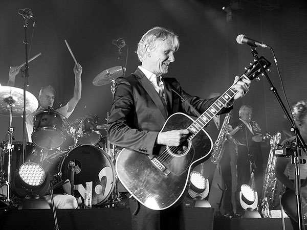 Steffen Brandt and TV2 performing in Aarhus, denmark